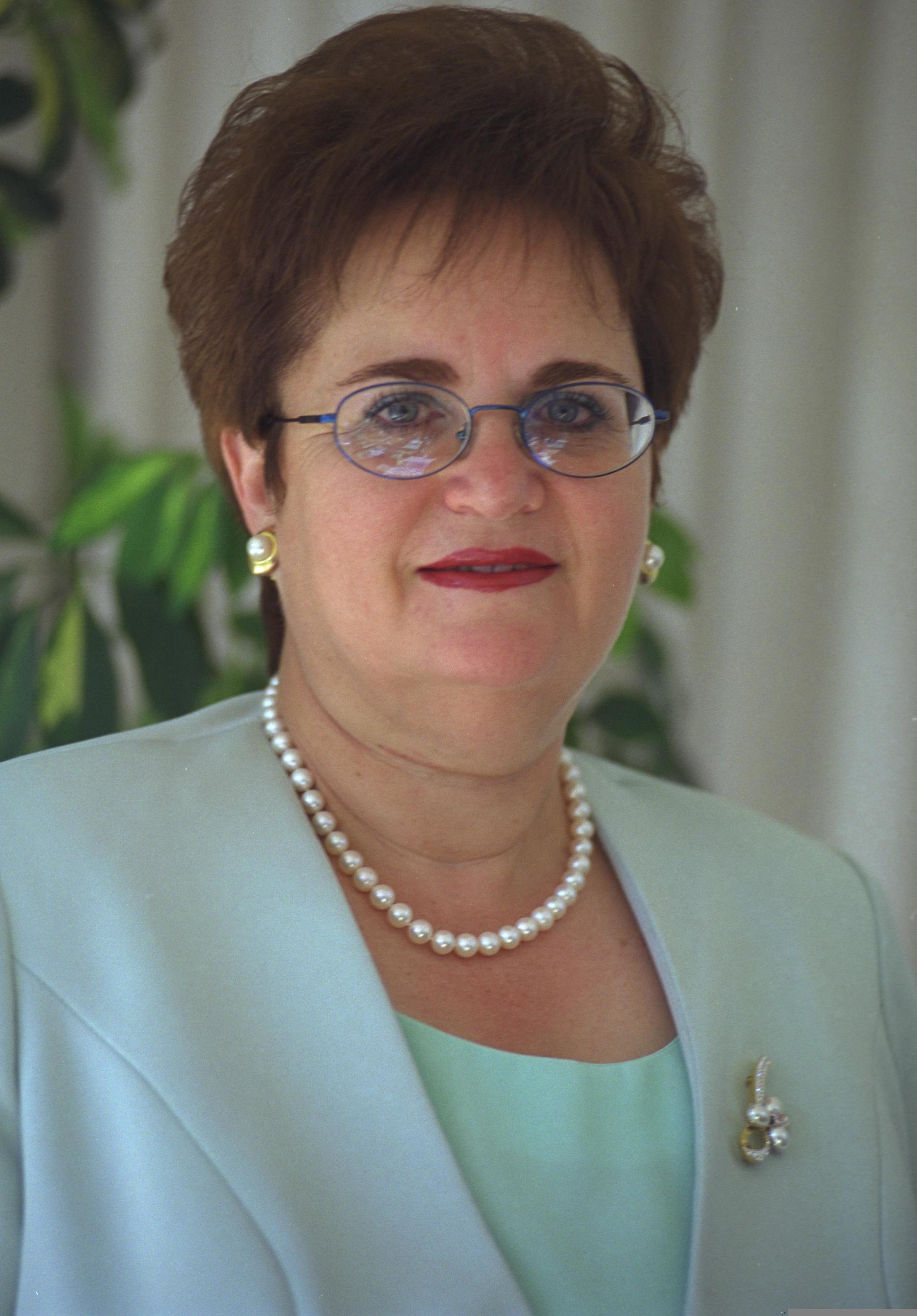 Portrait of the president's wife Gila Katsav.